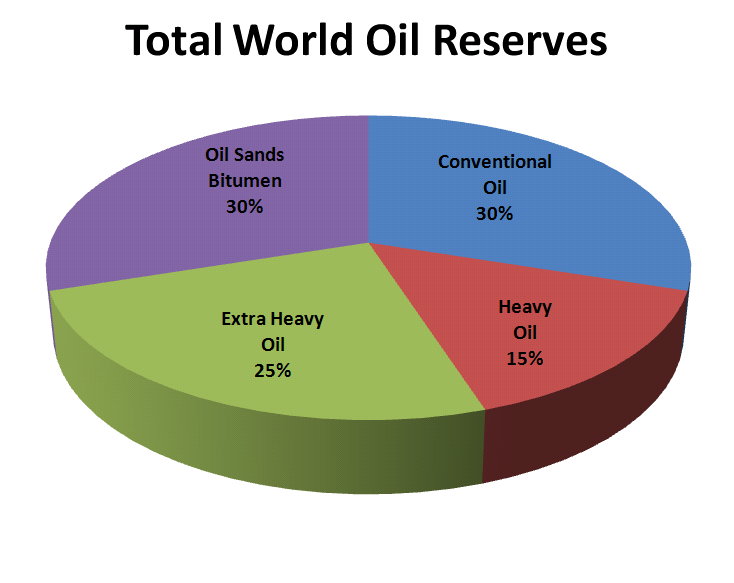 Total World Oil Reserves by Type